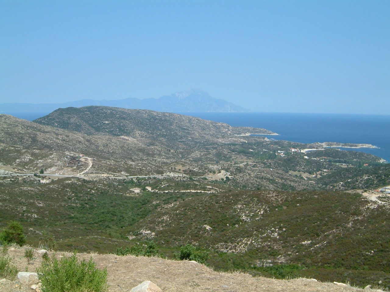 View on Kriaritsi region south of Sykia, Sithonia, Chalkidiki, Greece.